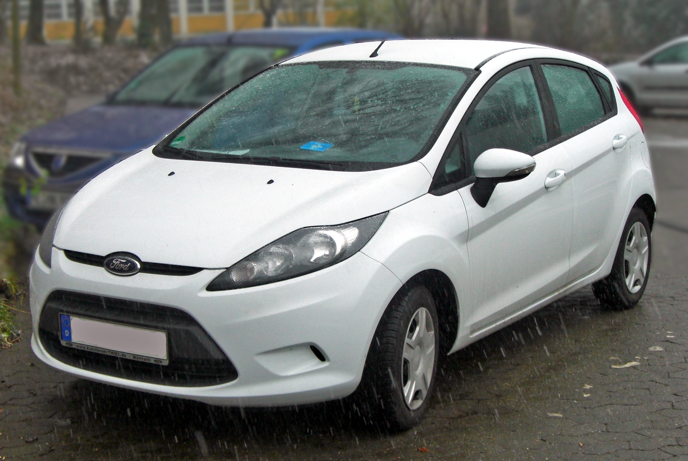 Description: Ford Fiesta MK6 „Trend“ Source: Matthias Other Version(s)